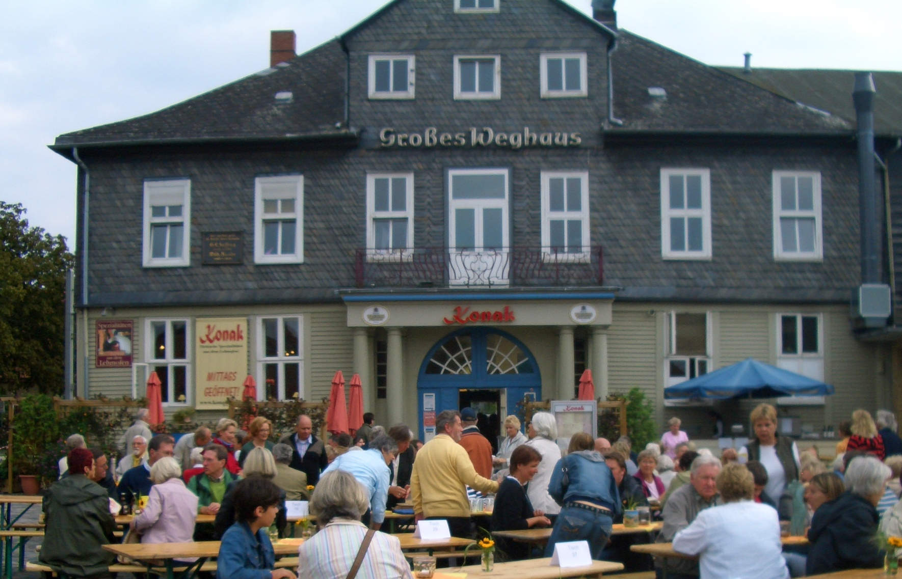 Open air theatre performance at Großes Weghaus in Stoekheim